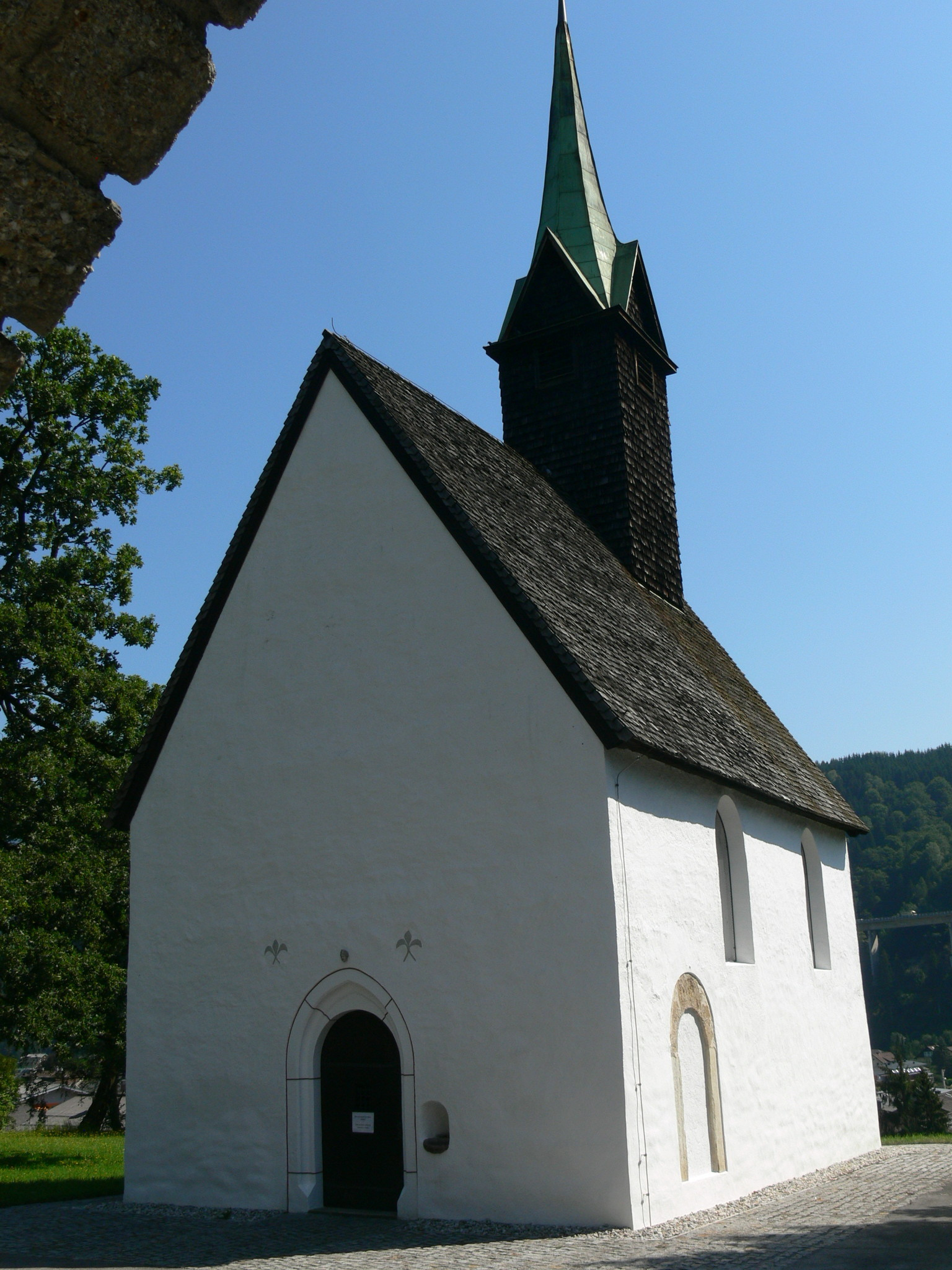 Bischofshofen (Salzburg). Chapel of Saint George (12th century).